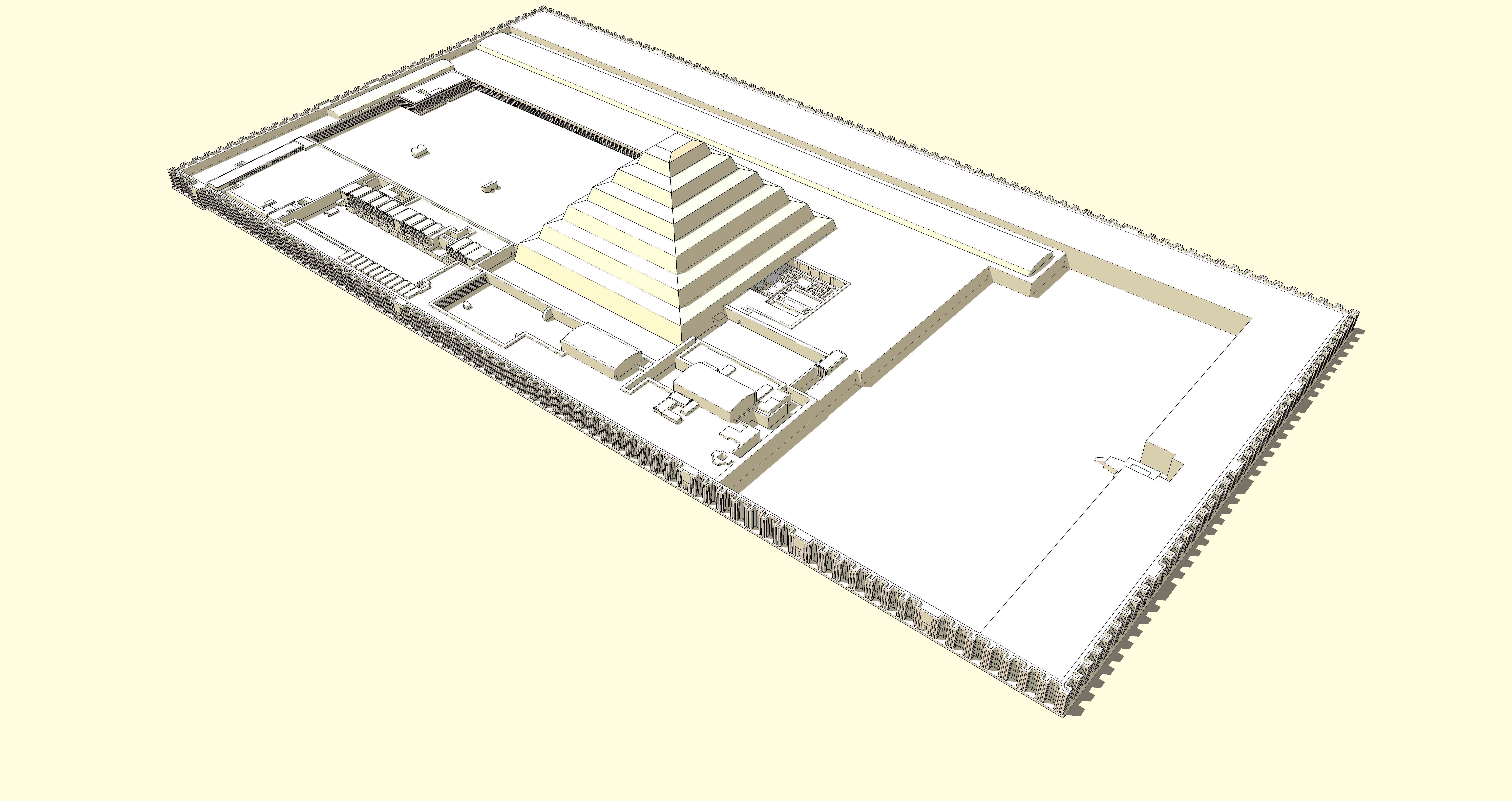 Reconstruction of the Djoser funerary complex, looking towards the southwest.